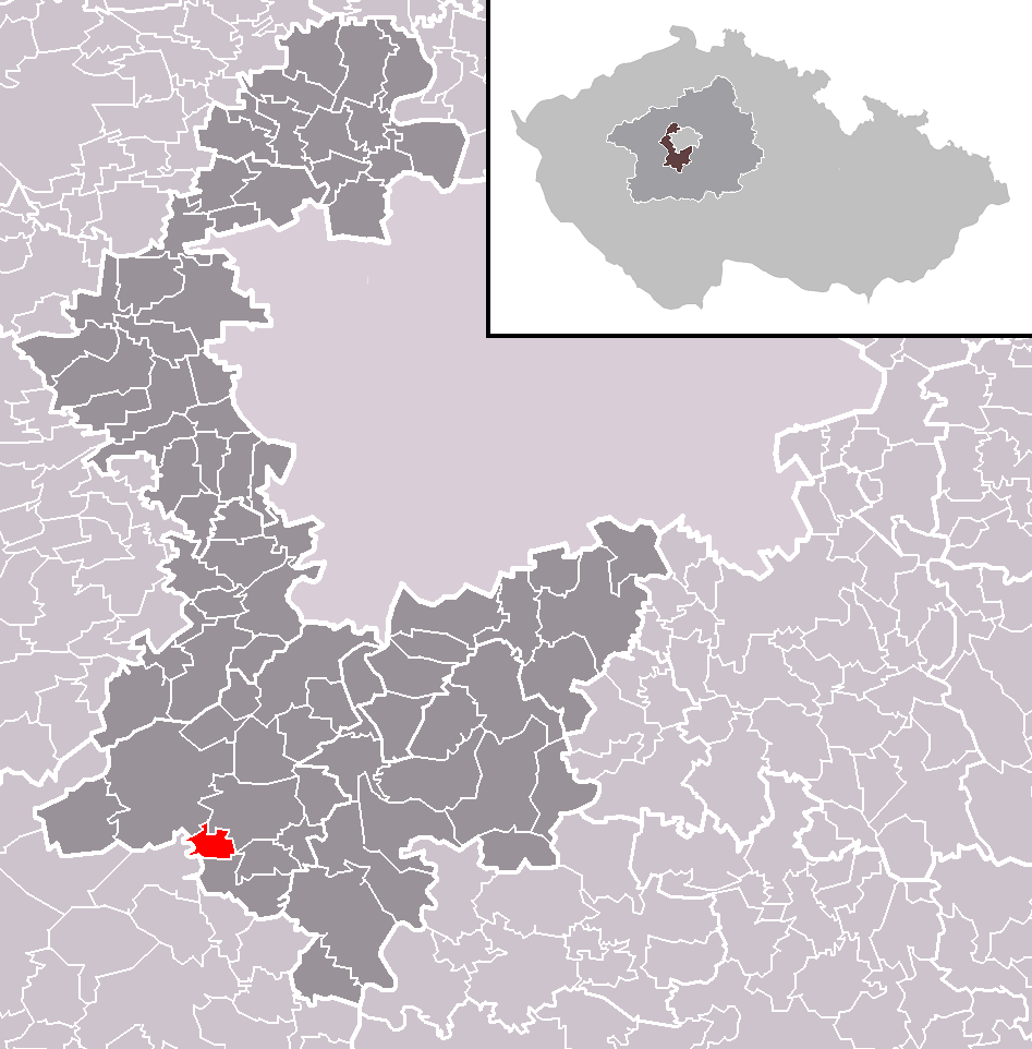 Location of Zahořany municipality within Prague-West District and administrative area of Černošice as a Municipality with Extended Competence.